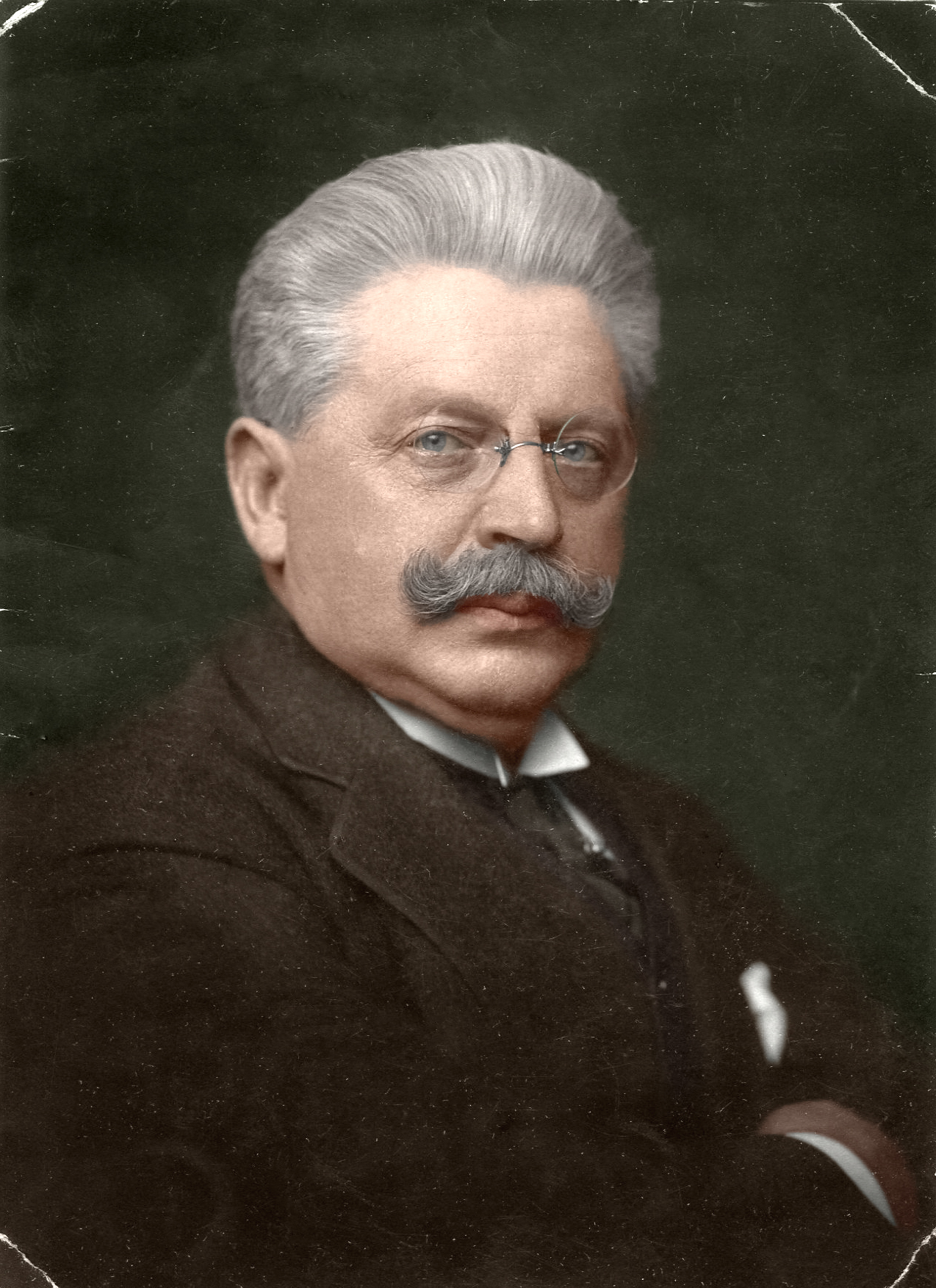 Václav Klofáč, chairman of a political party ČSNS (thirties 20th century) colored photo